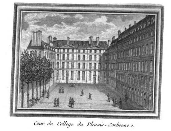 Courtyard of the college du Plessis in Paris